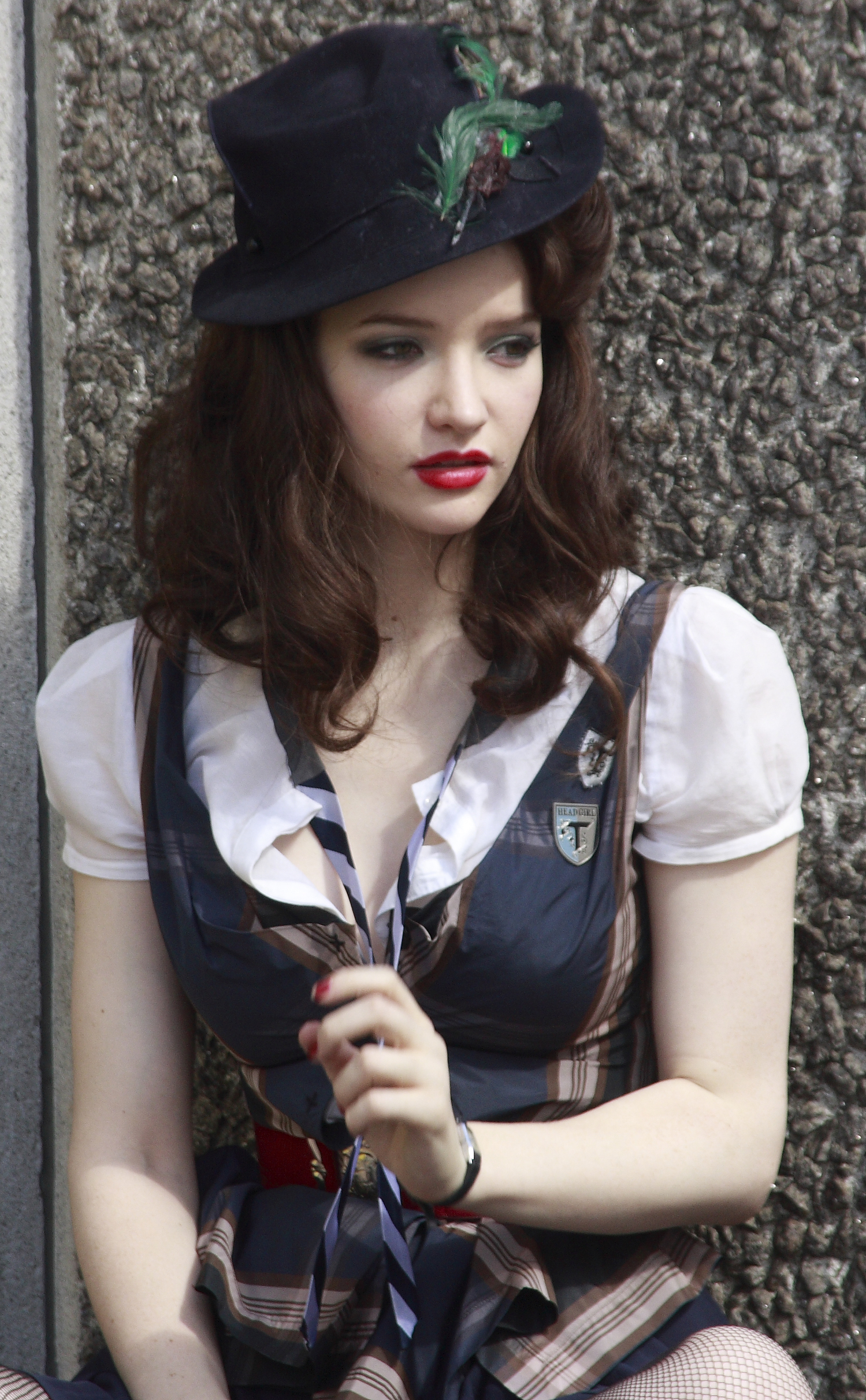 Talulah Riley on the set of St. Trinian's 2: The Legend of Fritton's Gold in August 2009.